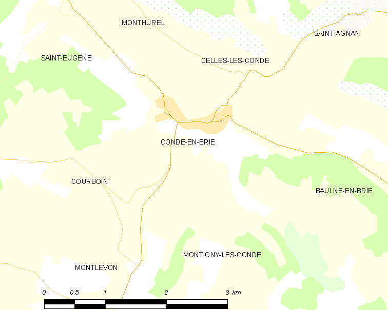 Map of French commune: Condé-en-Brie Map commune FR insee code 02209.png